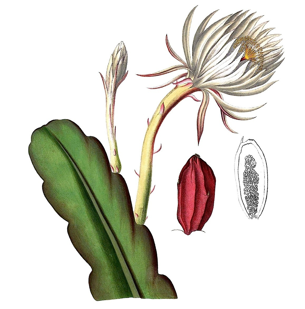 Epiphyllum hookeri